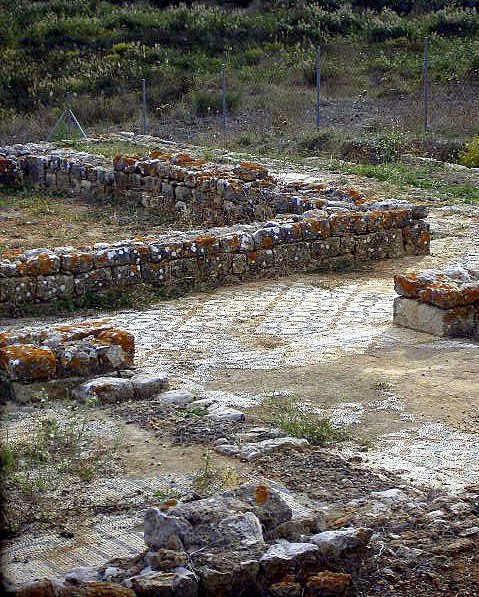 Roman location/station of "Quinta da Abicada" near Mexilhoeira Grande, parish of Portimão.